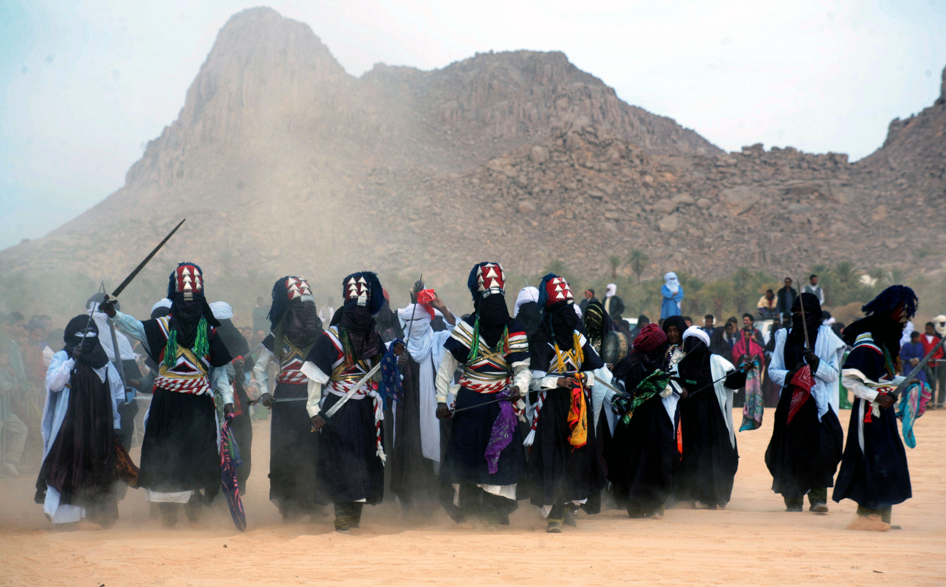 Algerian and foreign visitors swarm the desert town of Djanet for the Touareg celebration of Sbiba.